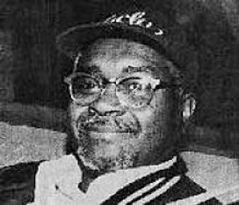 Image of Lorenzo Kom'boa Ervin, American writer, activist, and black anarchist